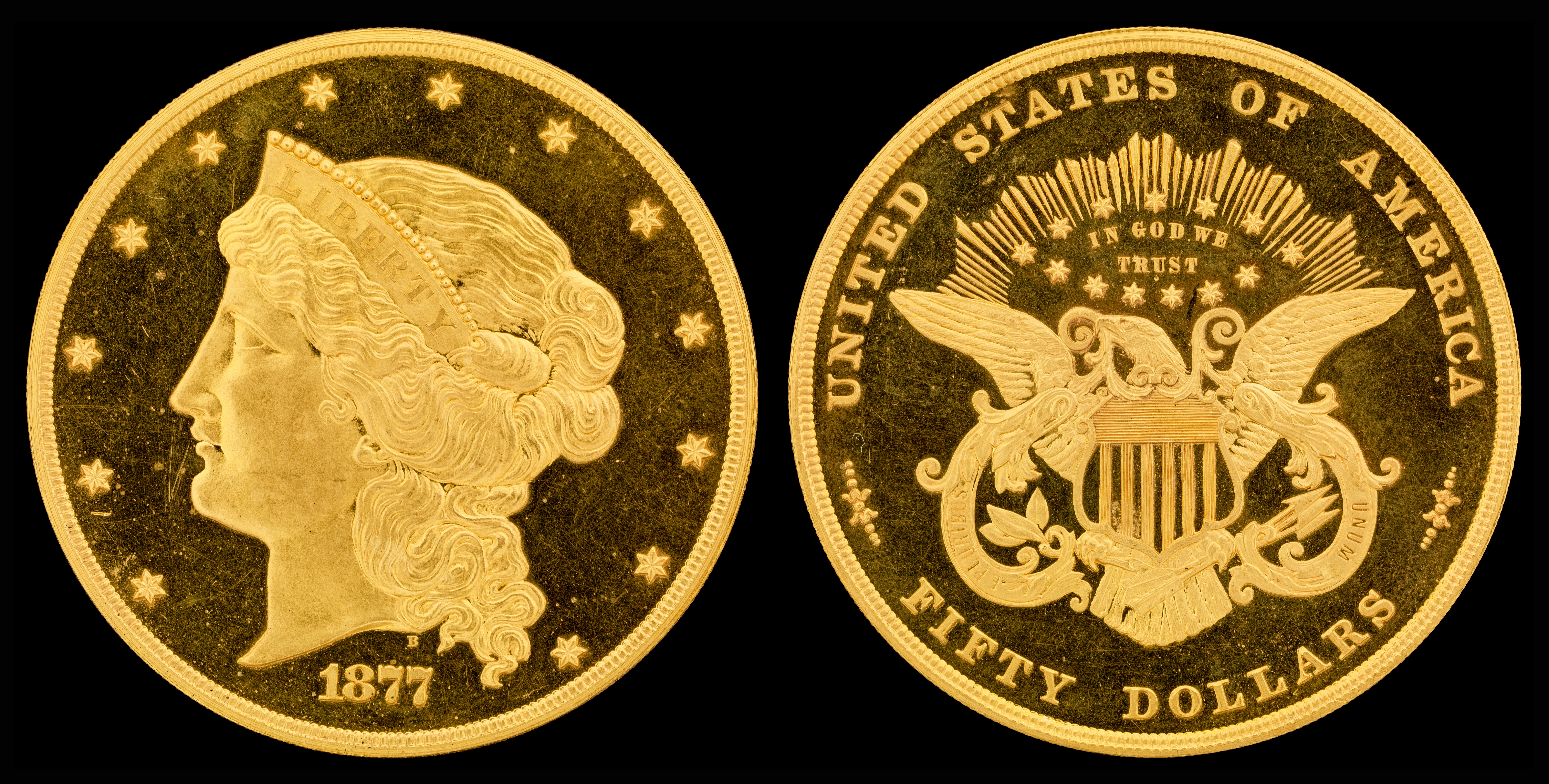 1877 G$50 Half-Union Pattern (longer hair) (J-1546) Gold (fineness 0.9000), 50.80mm, 83.58g, designed by William Barber, Chief Engraver of the United States Mint. This specimen is in the National Numismatic Collection. JN2015-5991-92